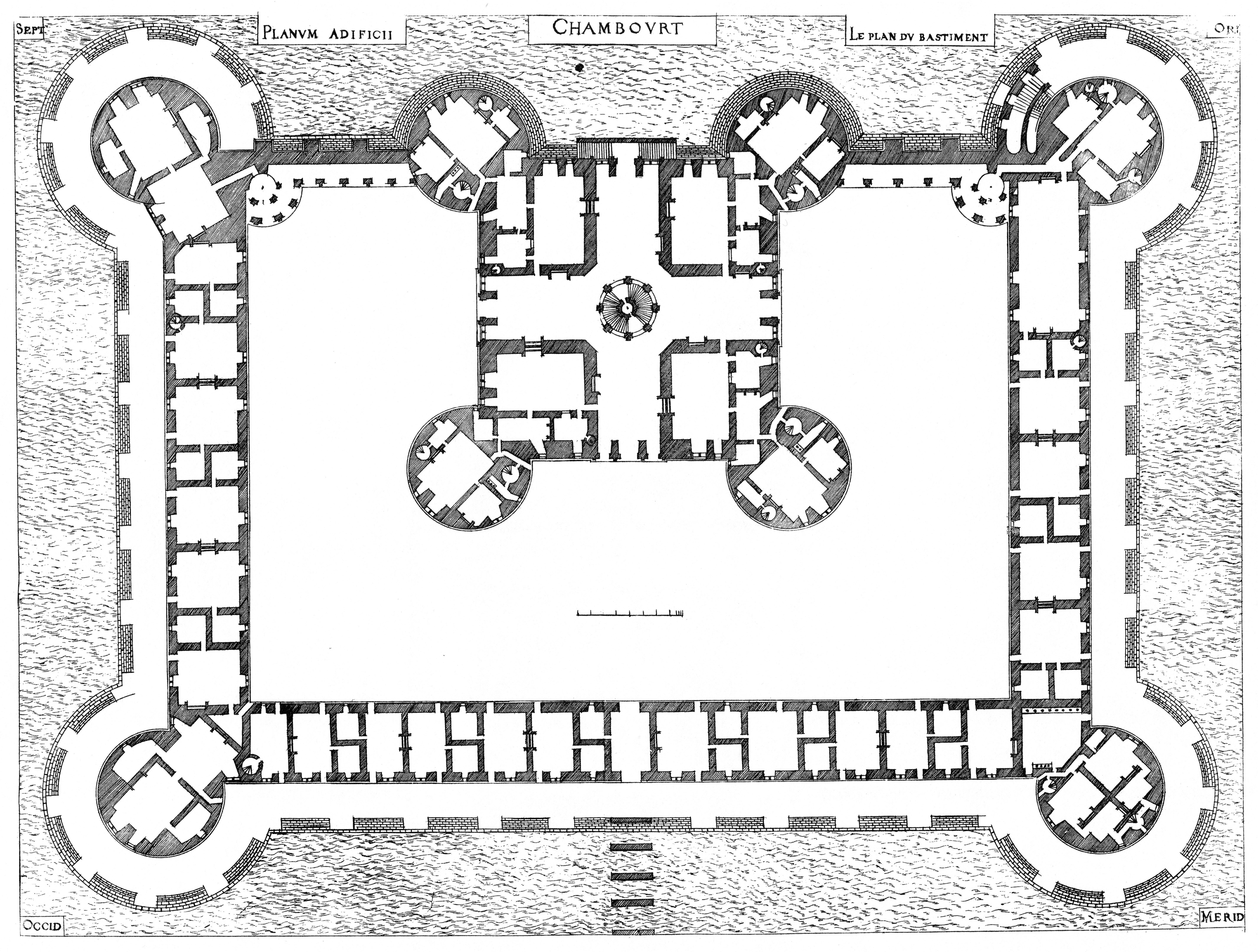 Engraving from Le premier volume des plus excellents Bastiments de France by Jacques I Androuet du Cerceau, showing the plan of the Château de Chambord